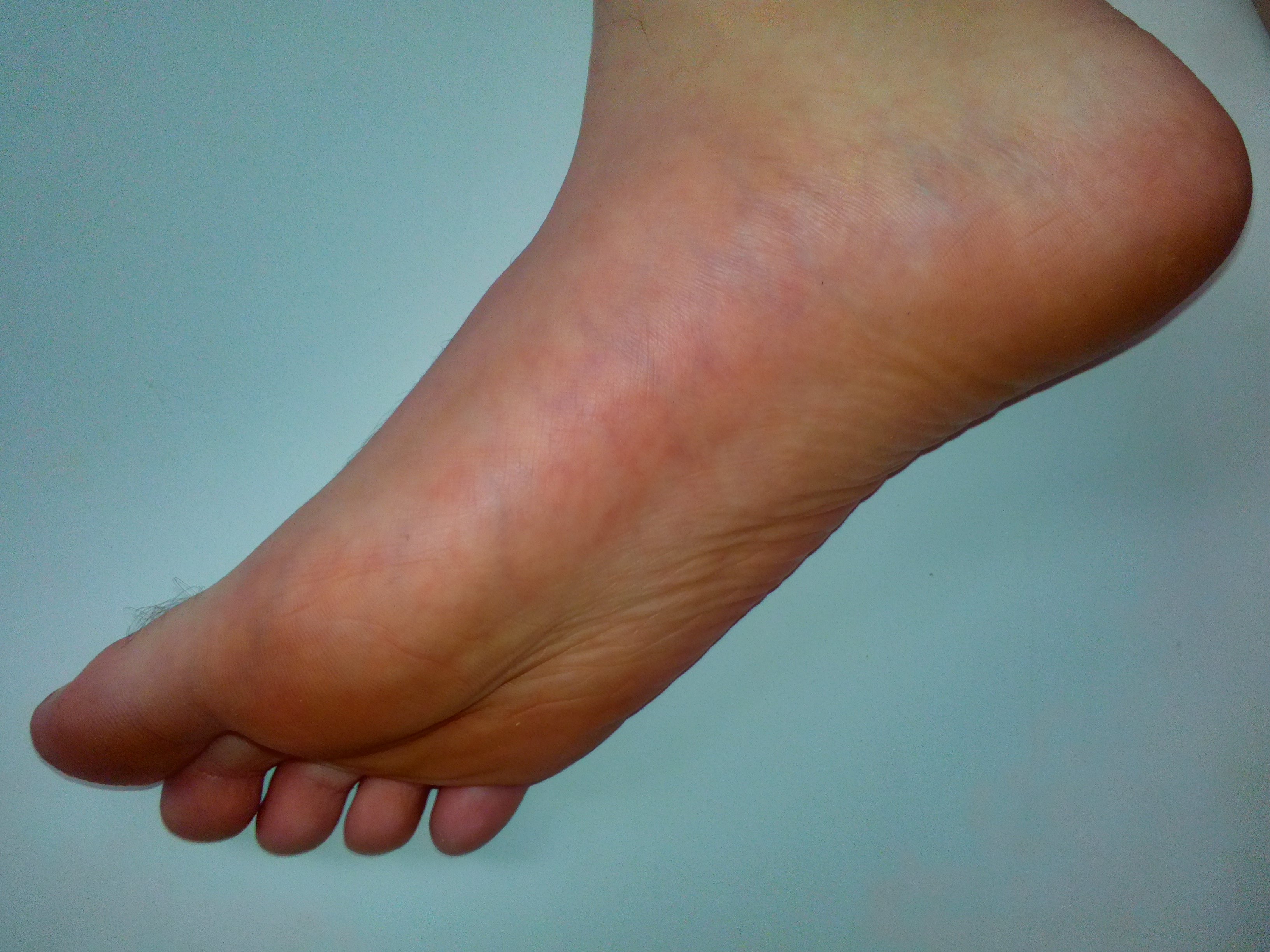 Asian male (age 20) foot .